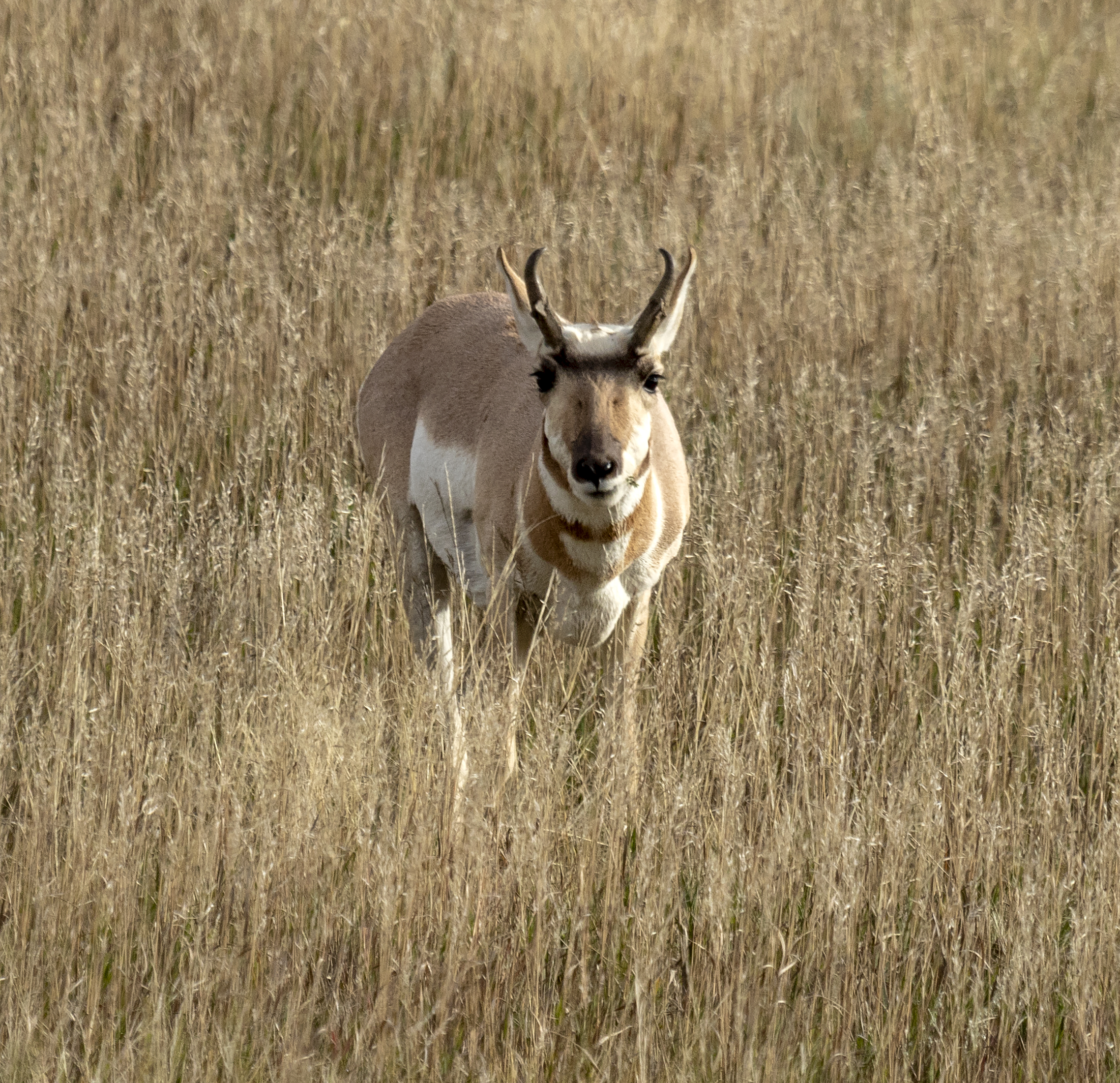 Pronghorn in the south unit of Theodore Roosevelt National Park, North Dakota, USA